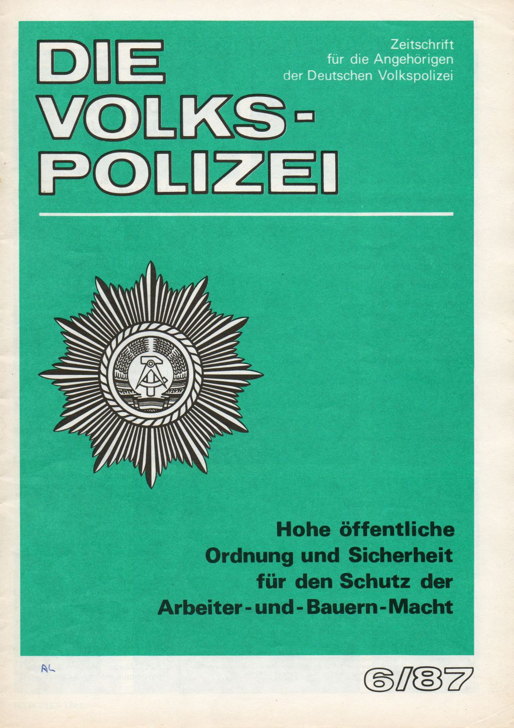 Zeitschrift Die Volkspolizei